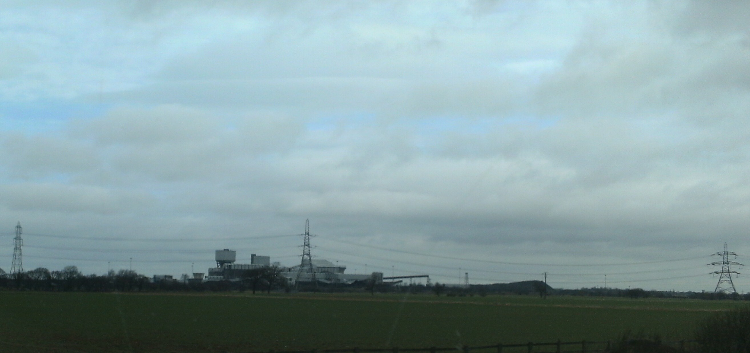 The South side of Kellingley Colliery, West Yorkshire, UK as seen from the M62